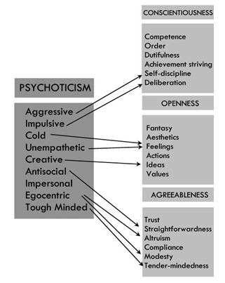 Similarities between lower-order factors for ‘psychoticism’ and the low-order factors ‘openness’, ‘agreeableness’ and ‘conscientiousness’ (Data from Matthews, Deary & Whiteman, 2003)